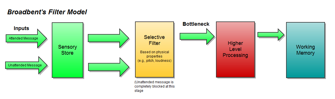 Diagram of how the filter theory of selective attention operates.